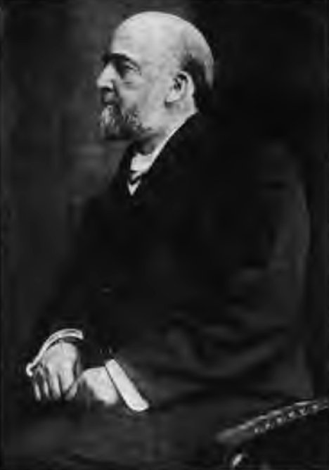 Photograph of Joseph F. Berry (1856-1931) Bishop of the Methodist Episcopal Church